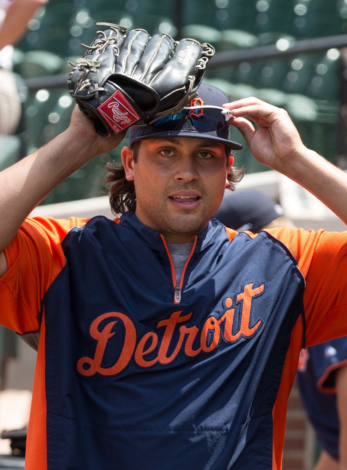 Detroit Tigers at Baltimore Orioles June 1, 2013